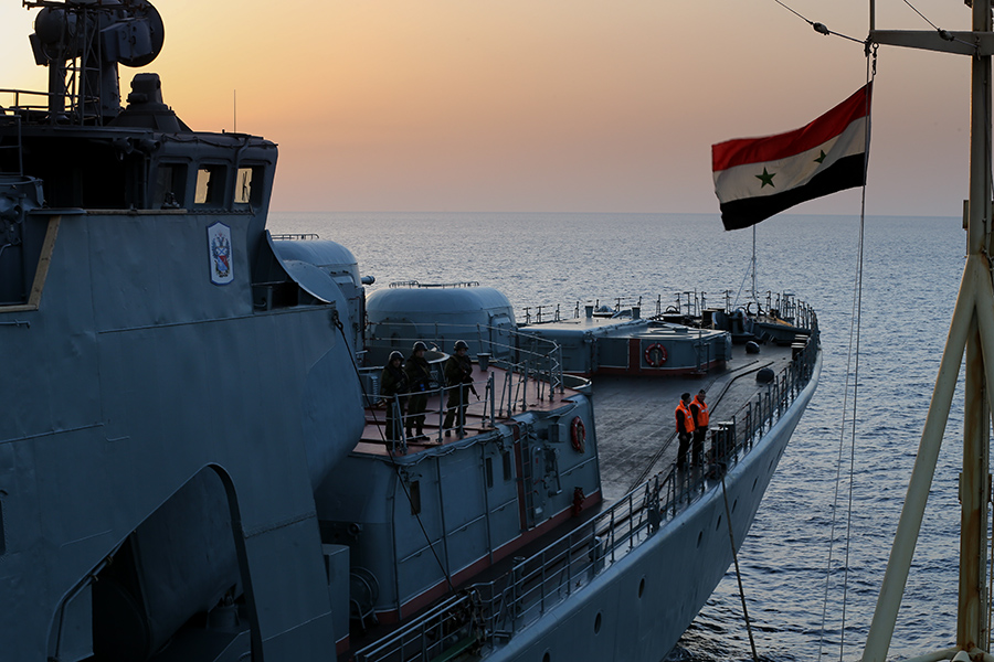 Permanent group of the Russian Navy in the Mediterranean Sea provides air defence in Syria